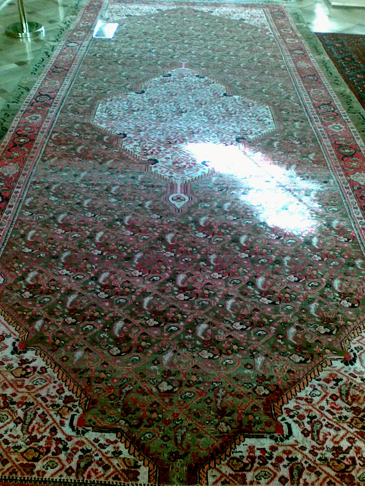 Carpet (Melayir carpet ofTebriz carpet school) belonging Huseyn - Ali khan (1750 − 1780), ruler of İrevan khanate, Azerbaijan National History Museum İrəvan xanı Heseyn Əli xana (1750 − 1780) məxsus xalça (növü Təbriz xalçaçılıq məktəbi, Məlayir xalçası) Azərbaycan Milli Tarix Muzeyində saxlanılır.